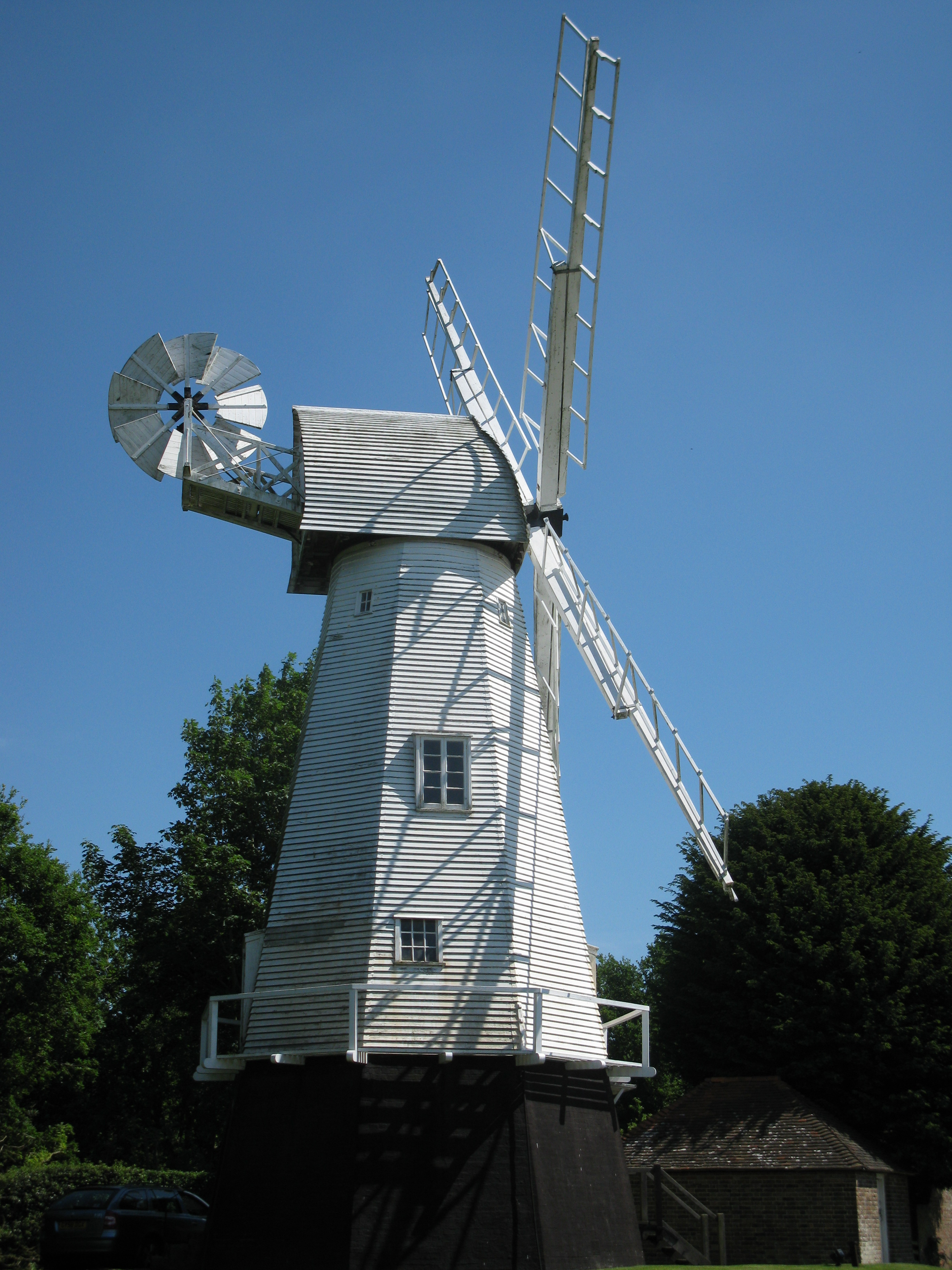 Side view of Heritage Mill, North Chailey, Sussex.